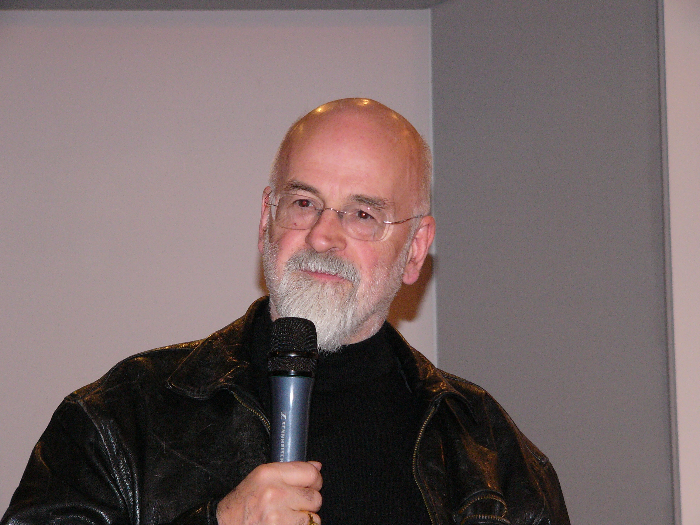 Terry Pratchett during the presentation of Stelle cadenti (italian translation of Moving Pictures) in Milan, 2007